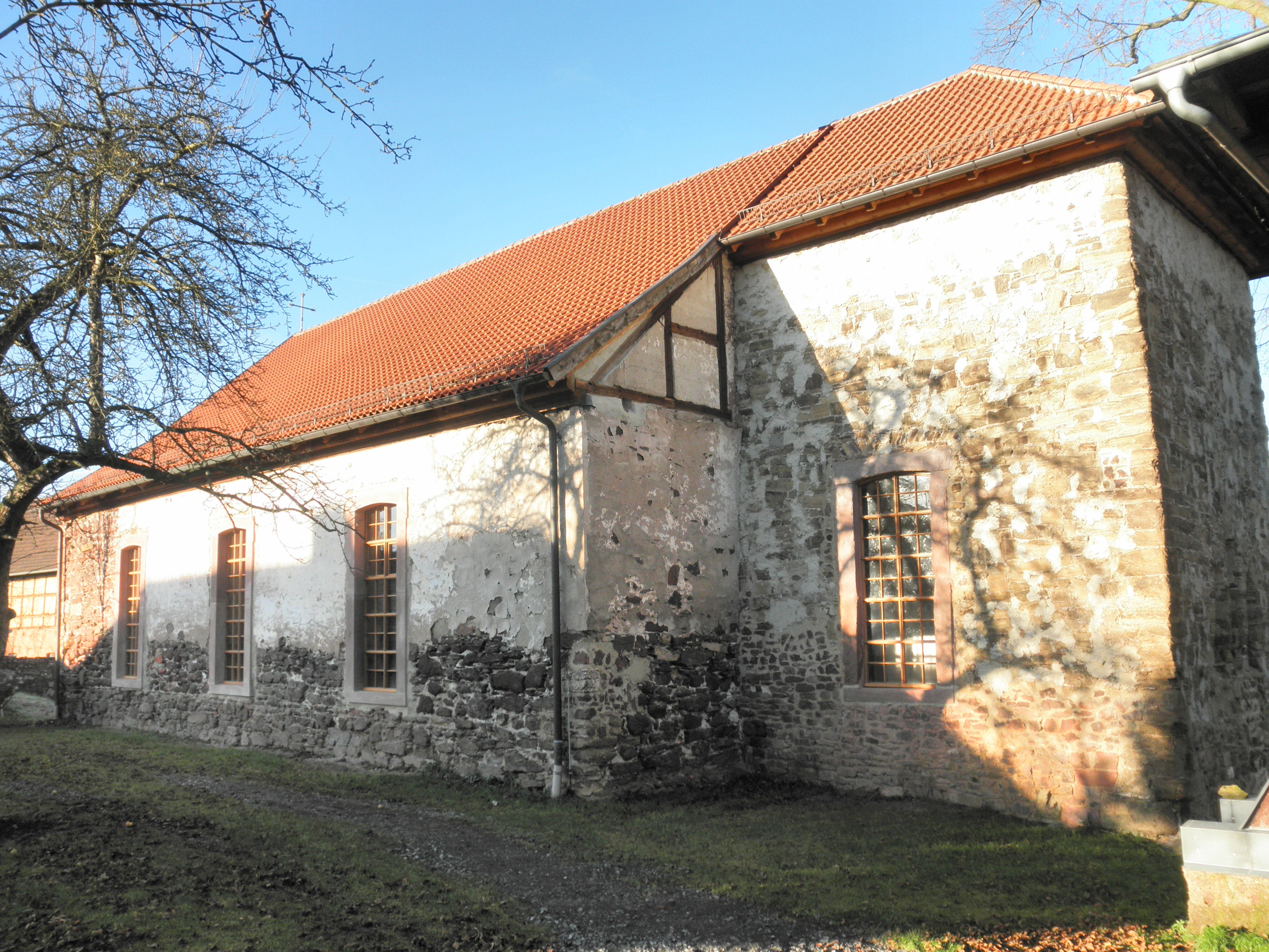 Church in Herrmannsacker in Thuringia